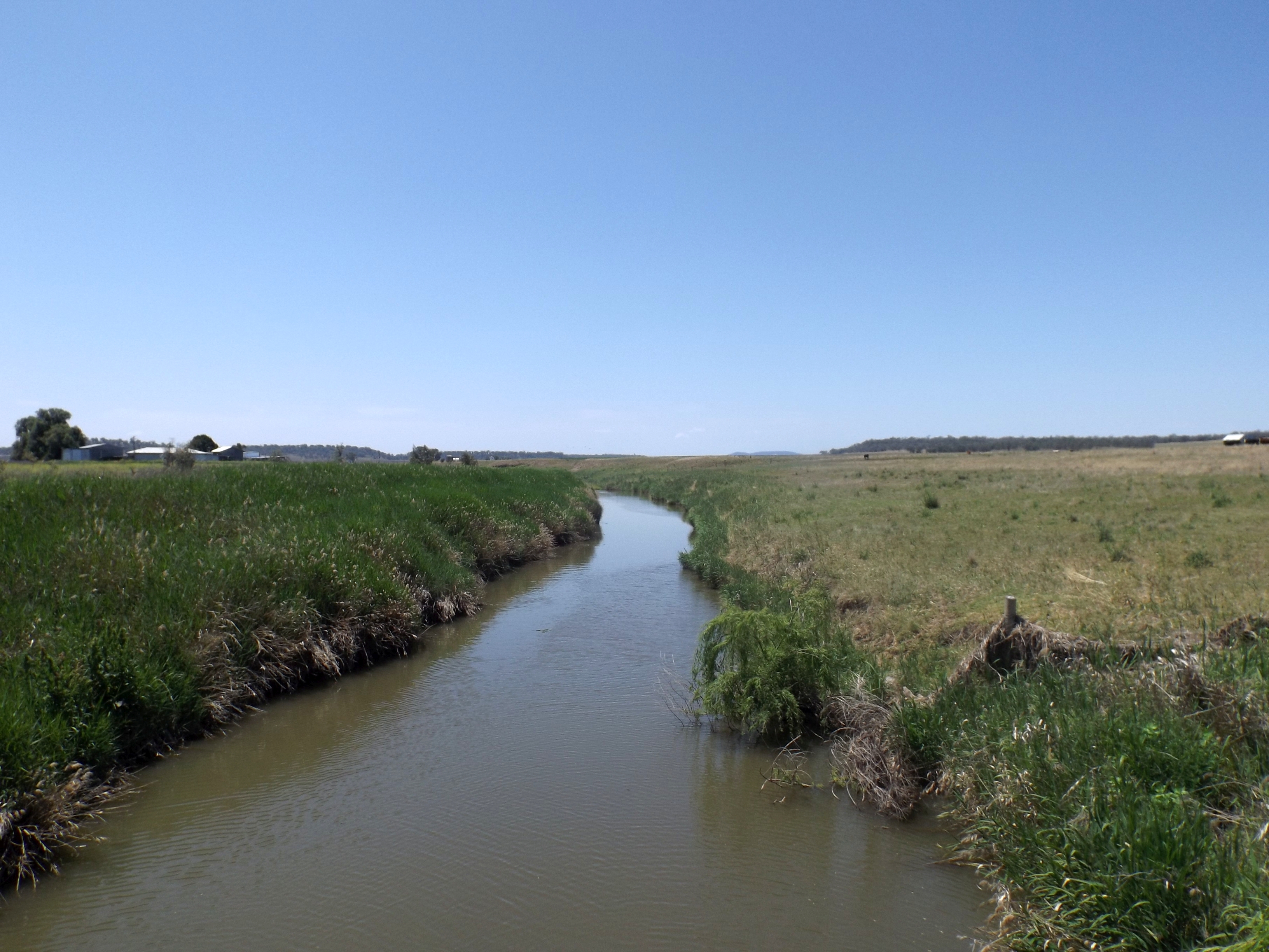 Photo of Hodgson Creek at Felton, Queensland, Australia. Photo was taken from bridge along Cambooya Felton Road facing north. Hodgson Creek is a tributary of the Condamine River.